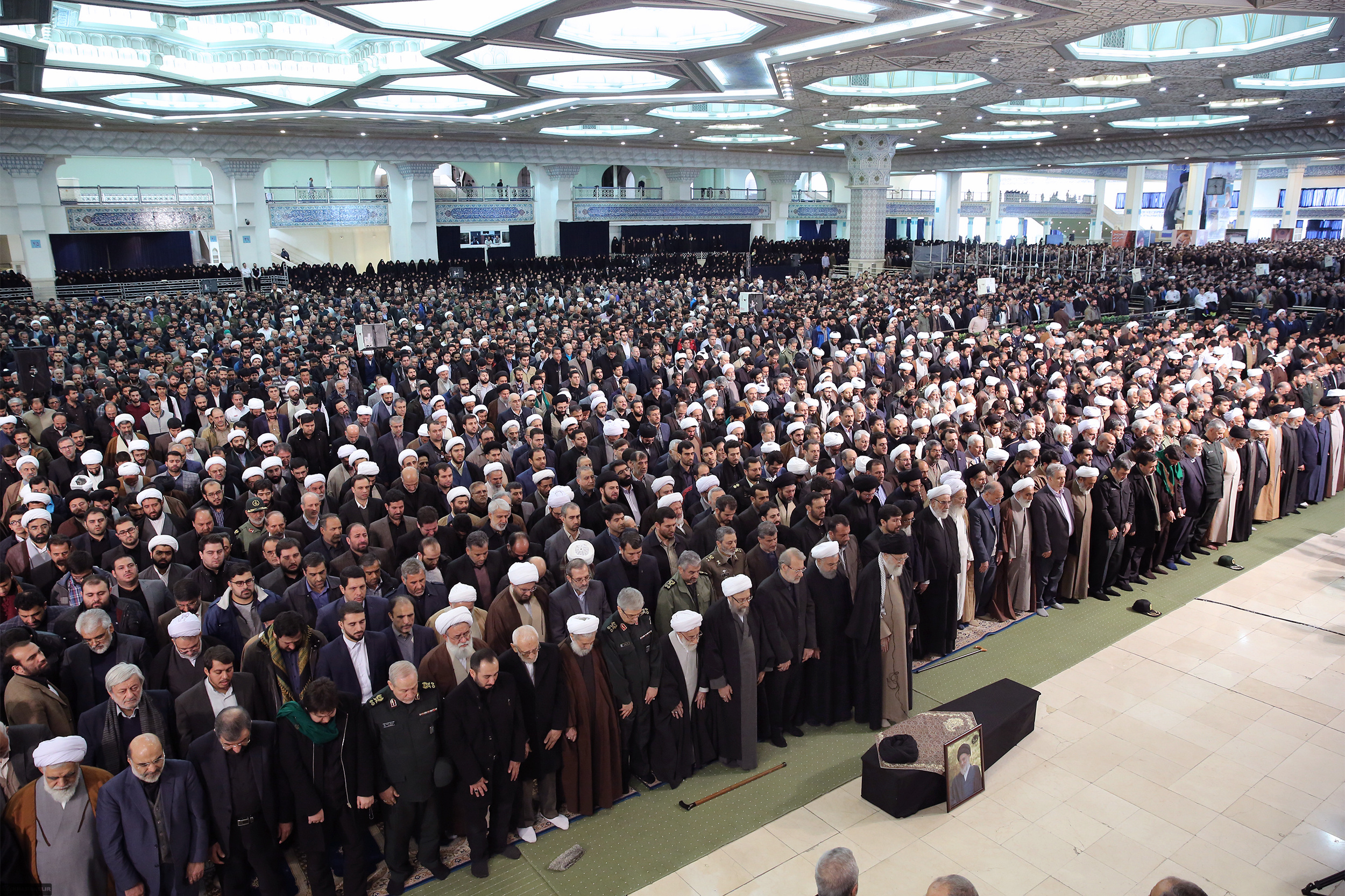 Ali Khamenei Praying for Ayatollah Mahmoud Hashemi Shahroudi- 26 Dec 2018